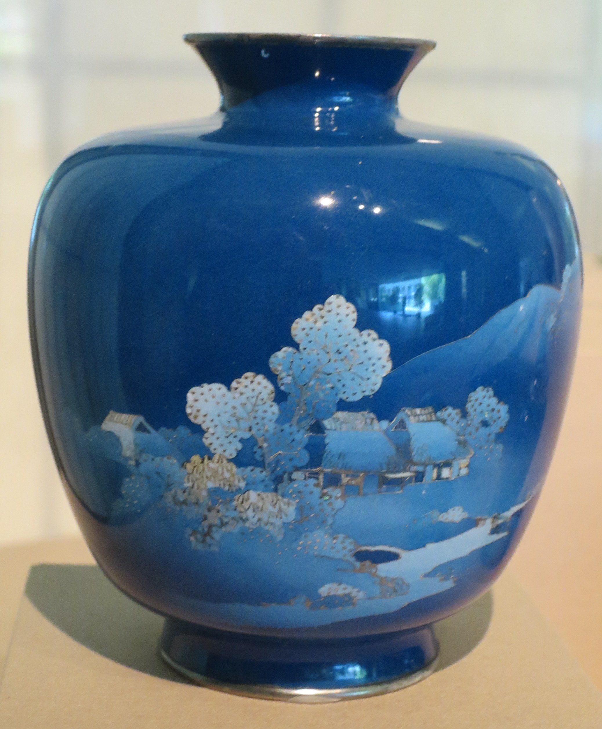 Cloisonné vase with design of houses in landscape by Namikawa Yasuyuki, c. 1910-15, private collection